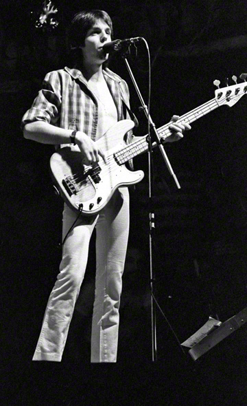 1978 Kasim Sulton performing in an Arcosanti Concert